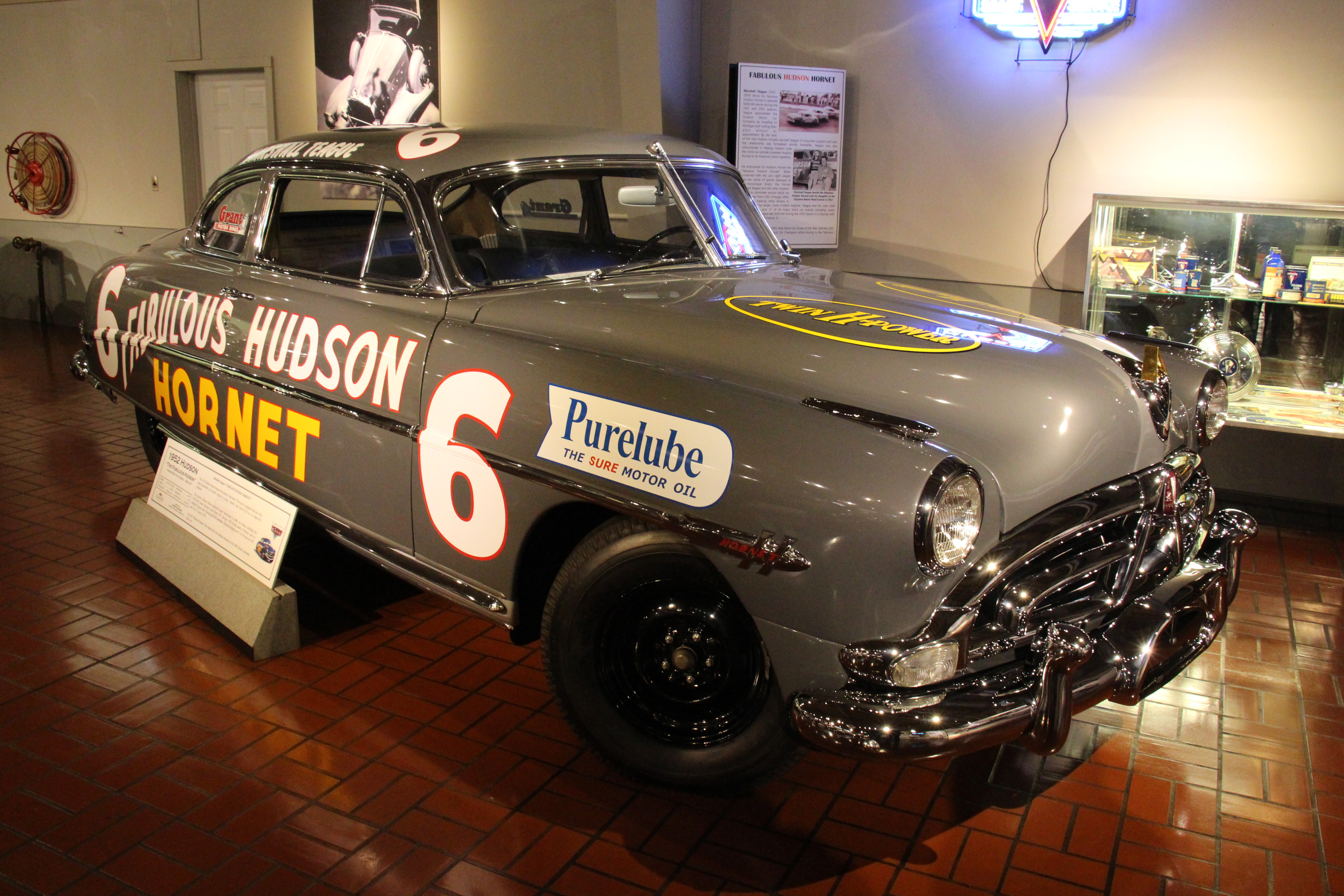 The Hornet was built from 1951-57, In 1955 Hudson and Nash were taken over by AMC, the Hudson name continued on until 1957, but a different styled car based on the Nash, so this the early model, was similar to the Hudson Commodore with that step down styling giving it a low slung look. They were available in Sedan, Coupe Hardtop and Convertible. The new Hornet achieved instant domination in stock car racing, including the NASCAR Grand National circuit from 1951-54. They won 27 of 34 races in 52 and 22 of 37 races in 53. It was also the Hornet that Doc Hudson was based on in the 2006 animated Disney movie, Cars Engine; Twin-H 262 cu in Super Six Flathead